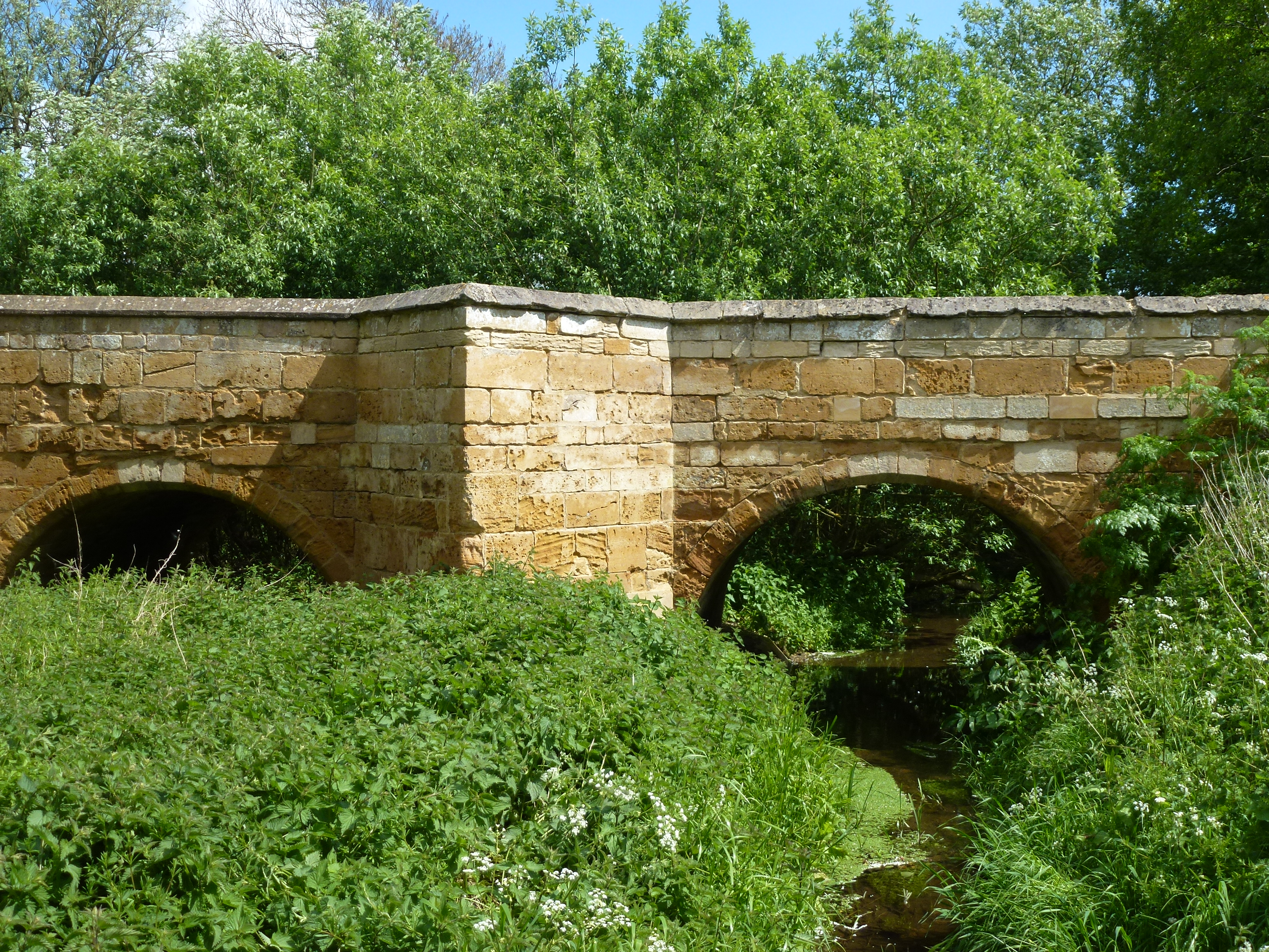 Lolham Bridges, Helpston, Cambridgeshire